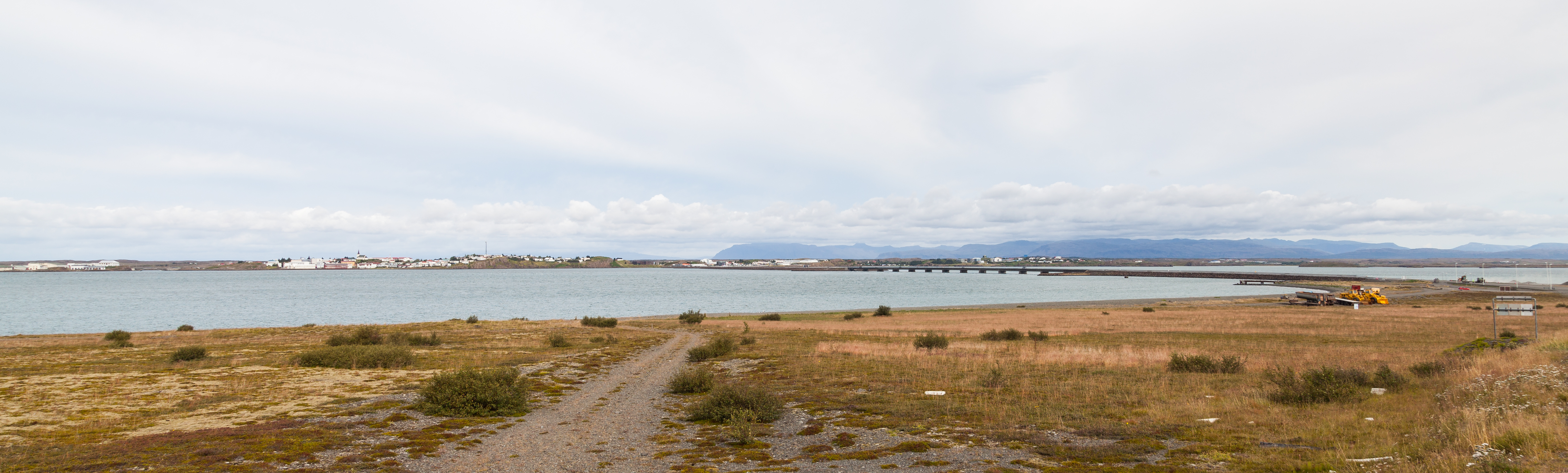 Bridge of Borgarnes, Vesturland, Iceland